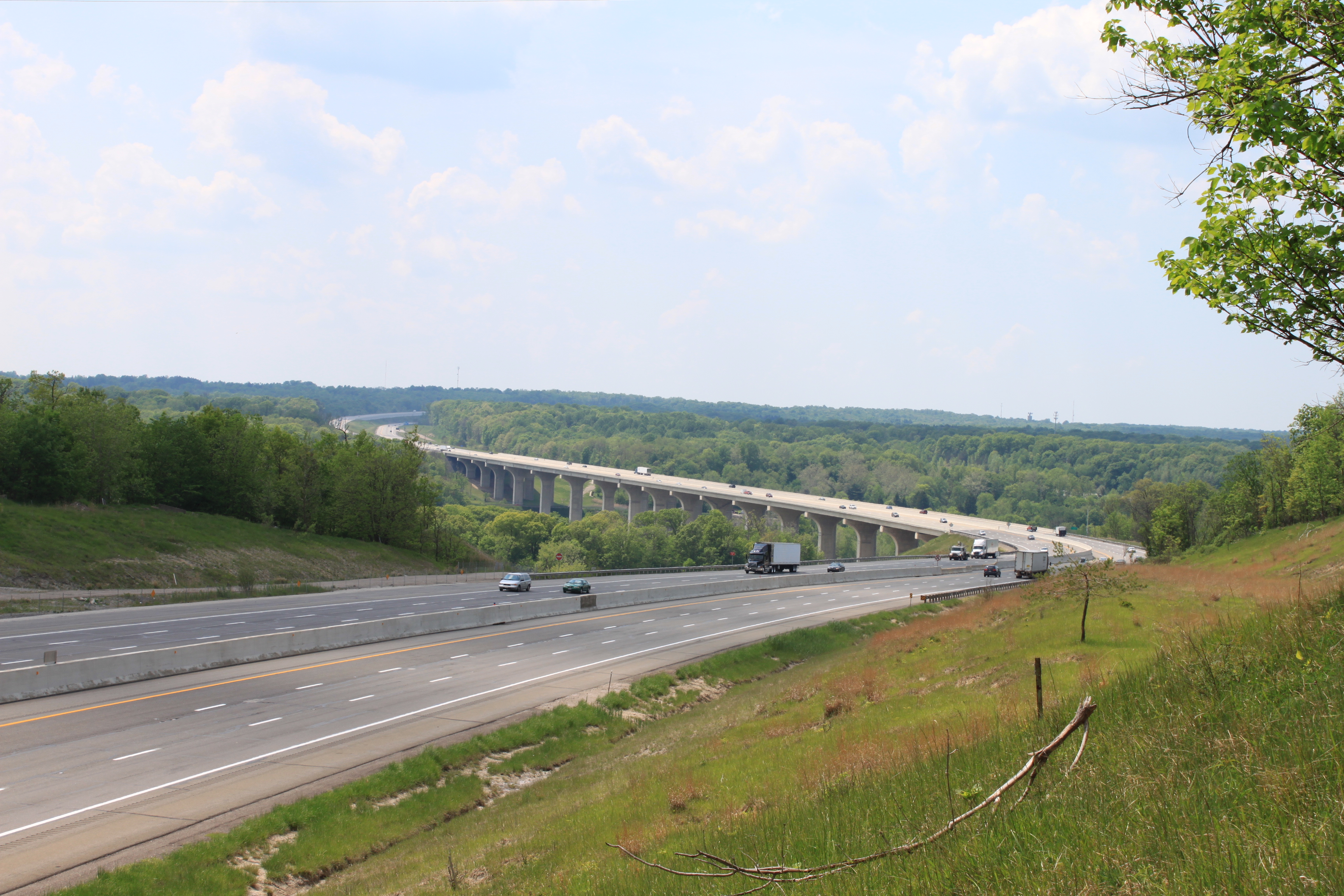 Cuyahoga Valley overlooking I-80 Ohio Turnpike